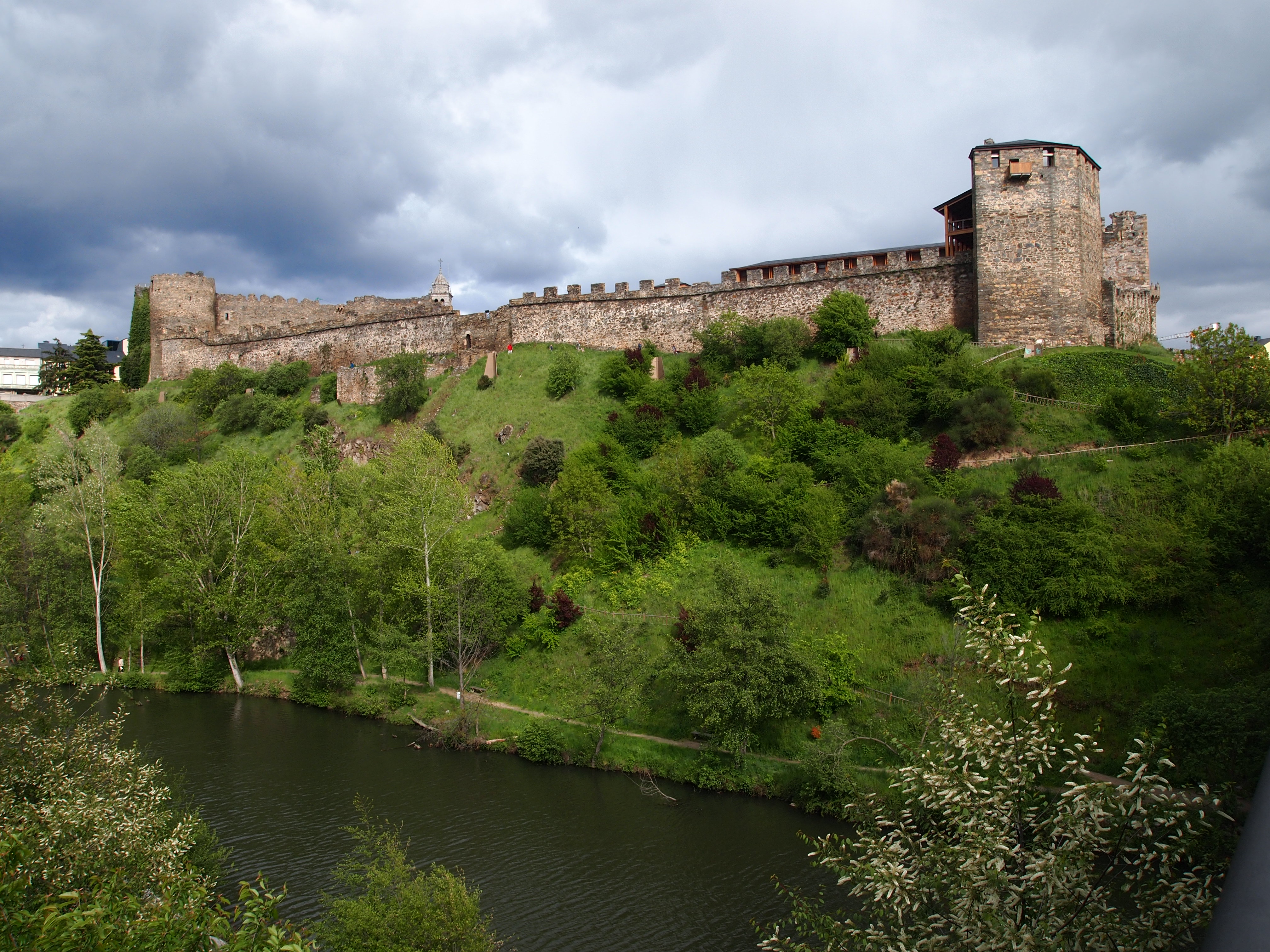 The Castle of Ponferrada from the other side of the Sil river.